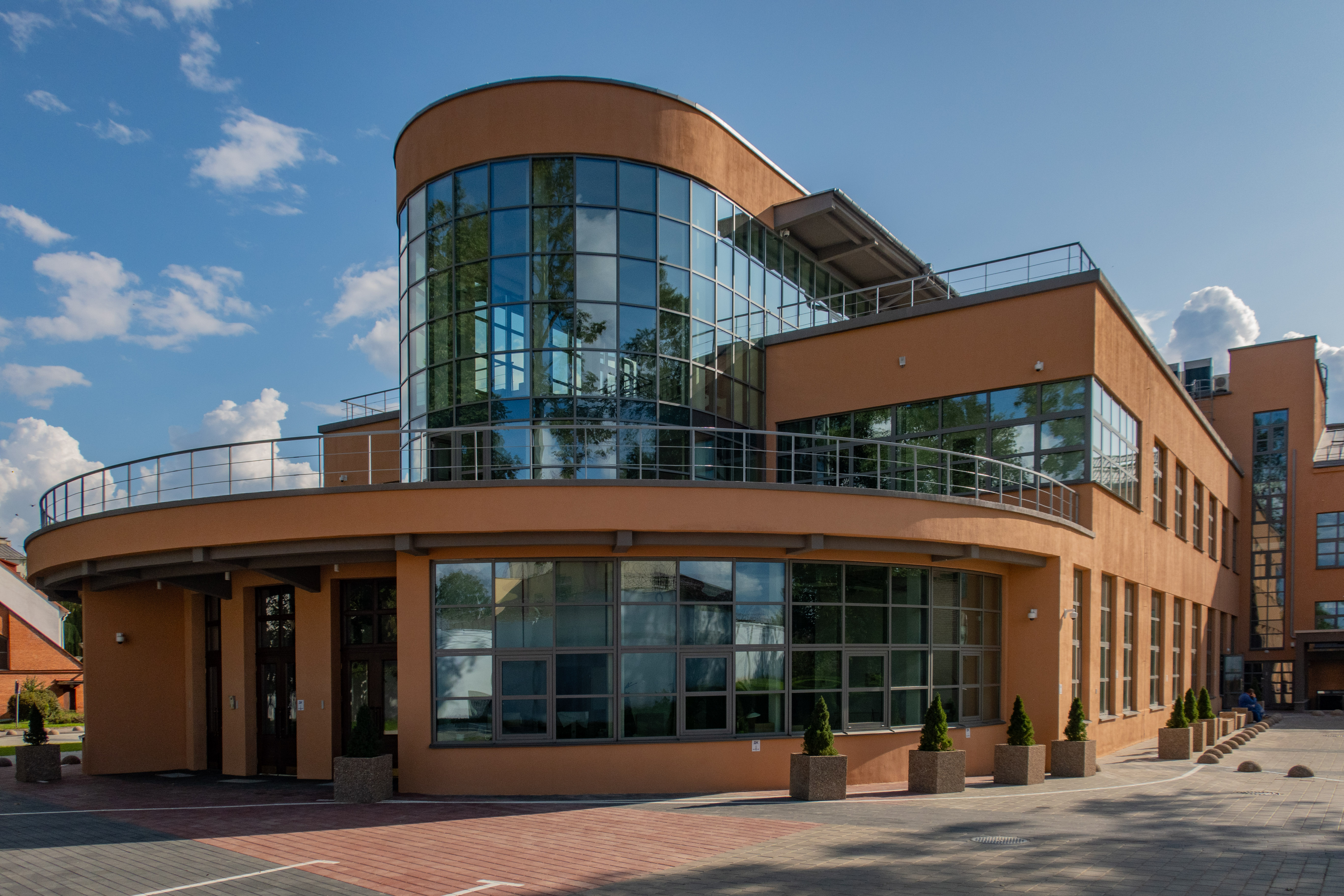 Constructivist factory-kitchen. Sviardlova street, Minsk, Belarus